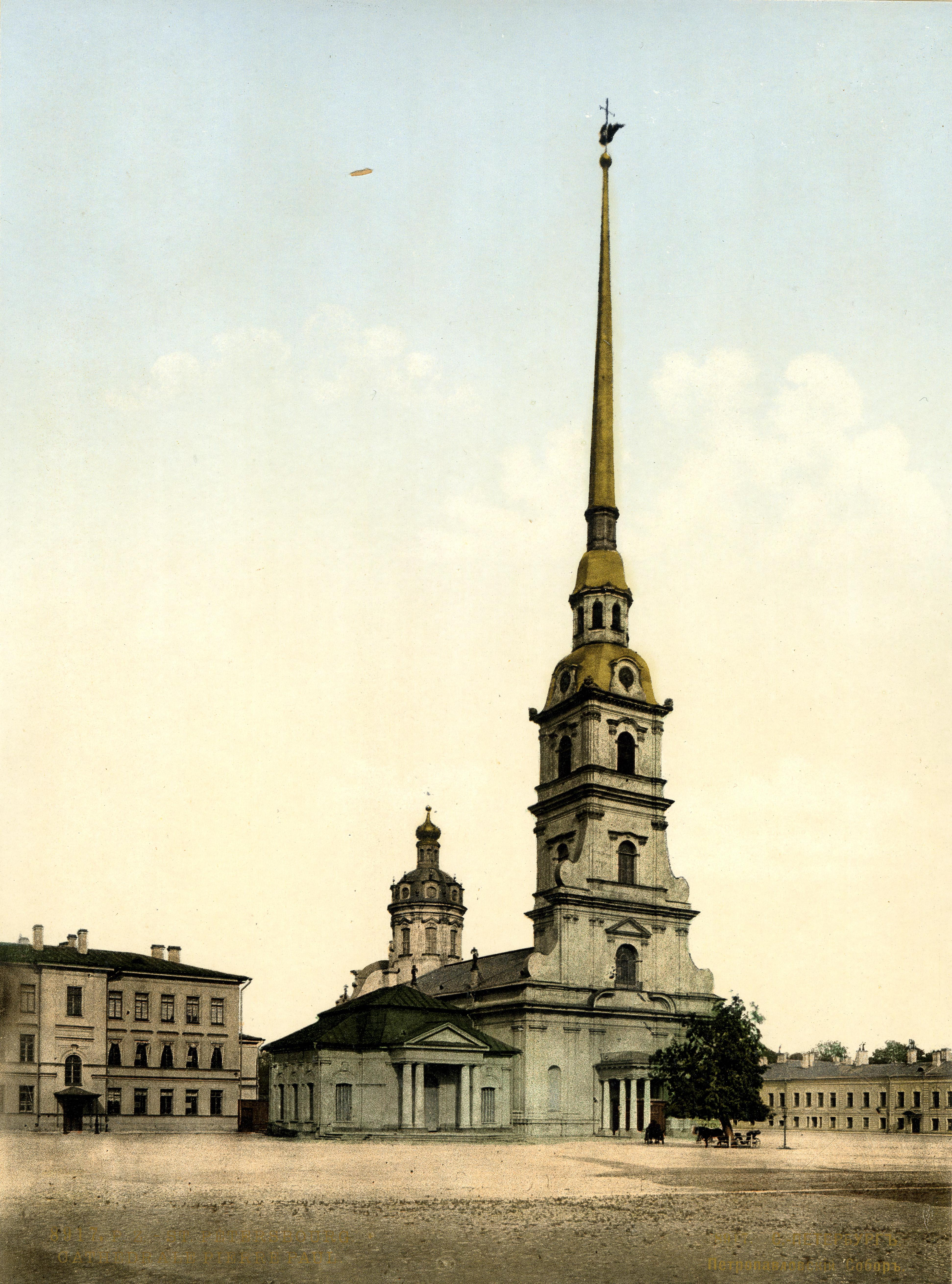 St. Peter and Paul's Cathedral in St Petersburg (Russia). 19th-century photochrome print (1890—1900); 22.3 x 16.6 cm; Inscription: lower left, in gold lettering: 8917. P.Z. - ST. PETERSBOURG CATHEDRALE PIERRE-PAUL.; lower right, in gold lettering: 8917 [caption in Russian]